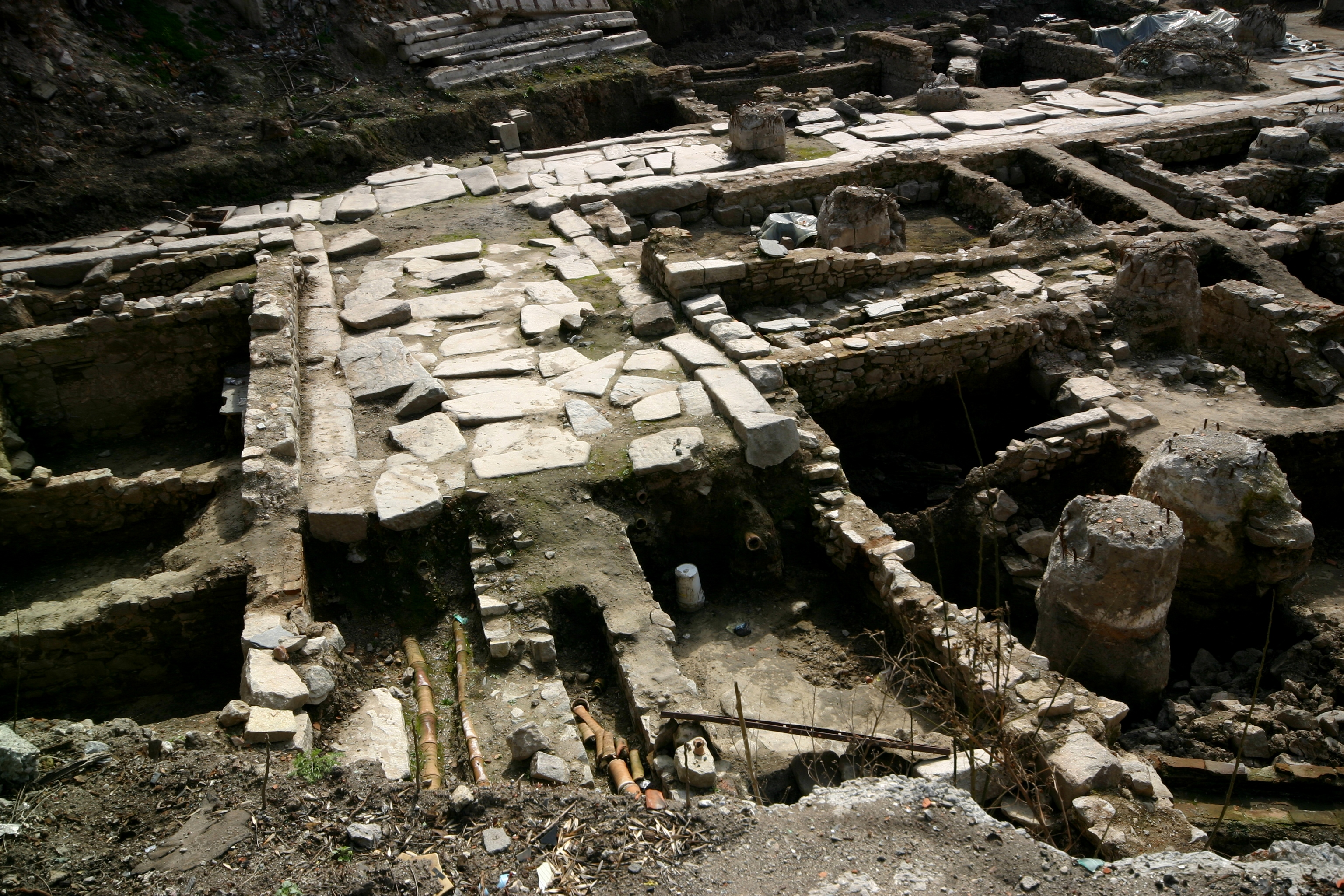 Ancient street of Philippopolis.